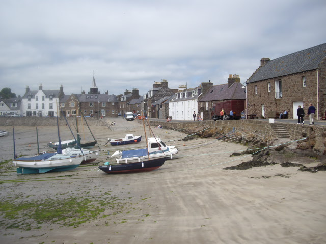 Harbour beach, Stonehaven Tollbooth at extreme right.